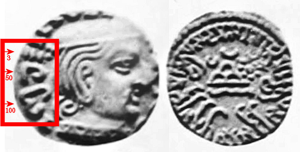 Western Satrap Damasena year 153 (date highlighted)